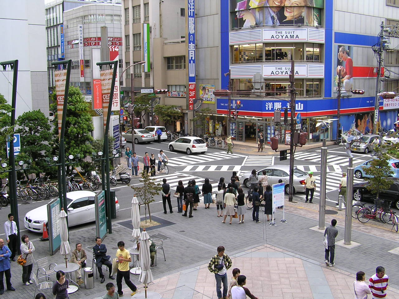 Diagonal crosswalk in front of Okayama CRED.